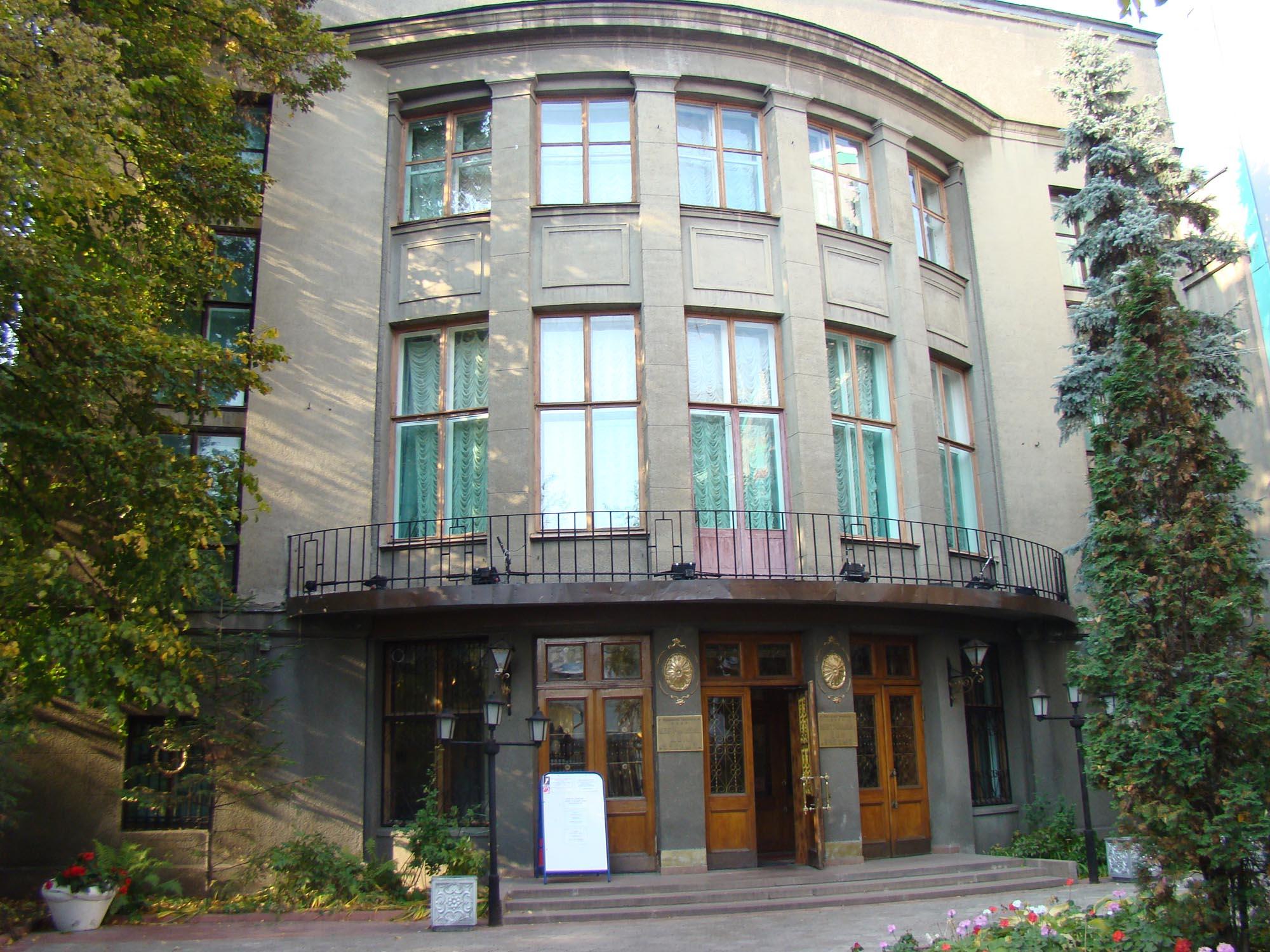 Anatoly Gunst House Konshina Prechistenka 16, Moscow (1908) residence of scientists (2011)